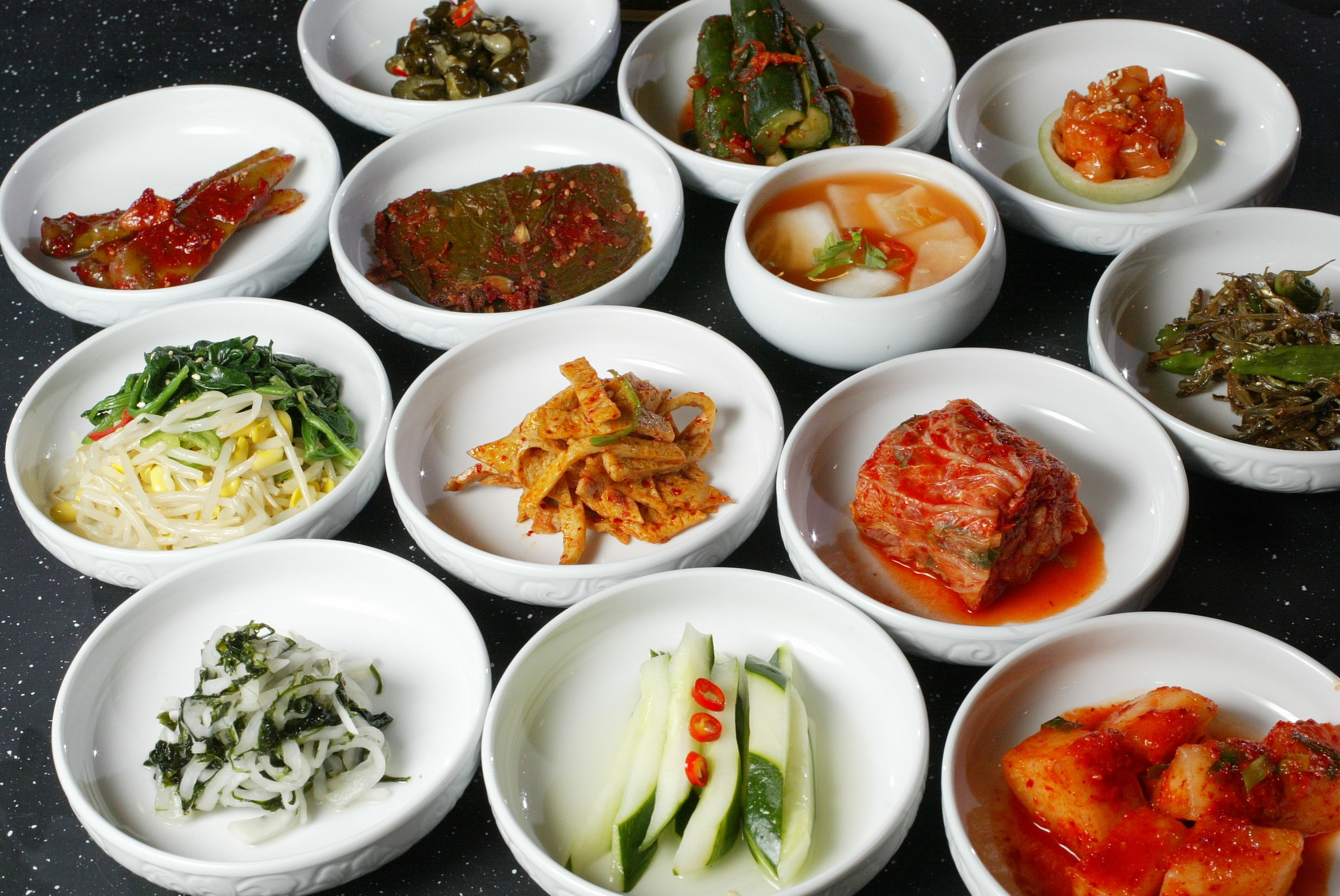 Banchan